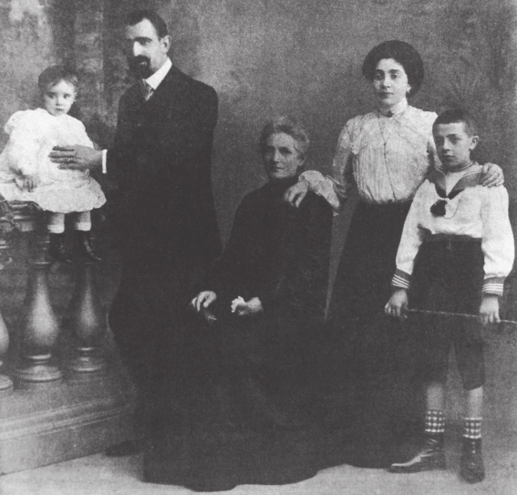 Bilintx and family